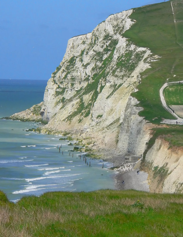 Cap Blanc-Nez near Calais, France